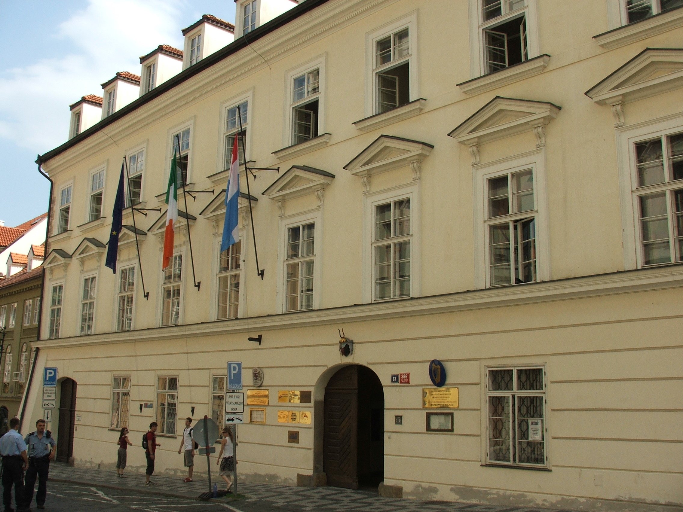 Embassies of Grand Duchy of Luxembourg and Republic of Ireland in Prague share same building at Tržiště street No.13 - Malá Strana, Czechia